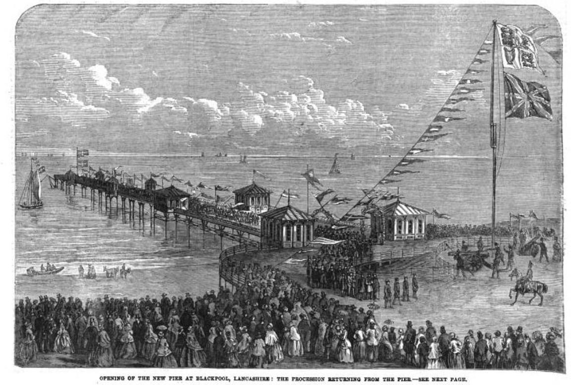 Blackpool North Pier opening